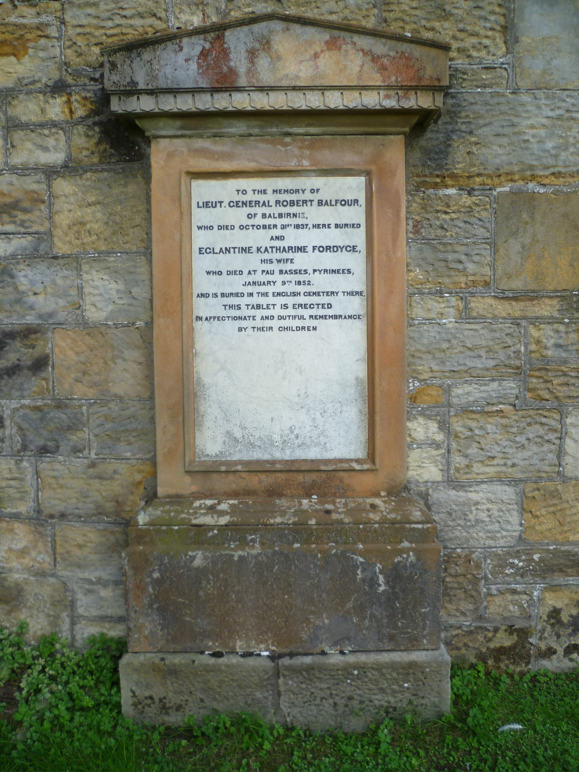 Memorial tablet for Lt.-Gen. Robert Balfour of Balbirnie, St. Drostan's Church, Markinch, Fife